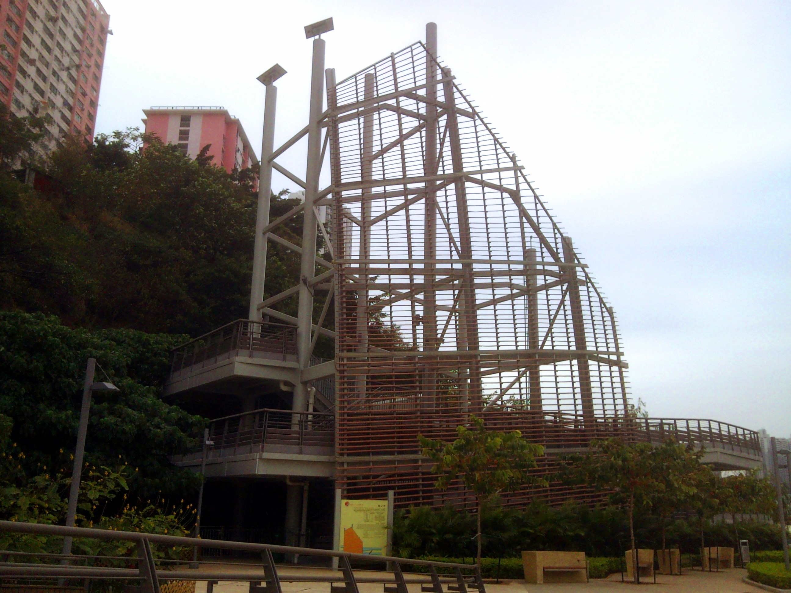 Ap Lei Chau Wind Tower Park Wind Tower